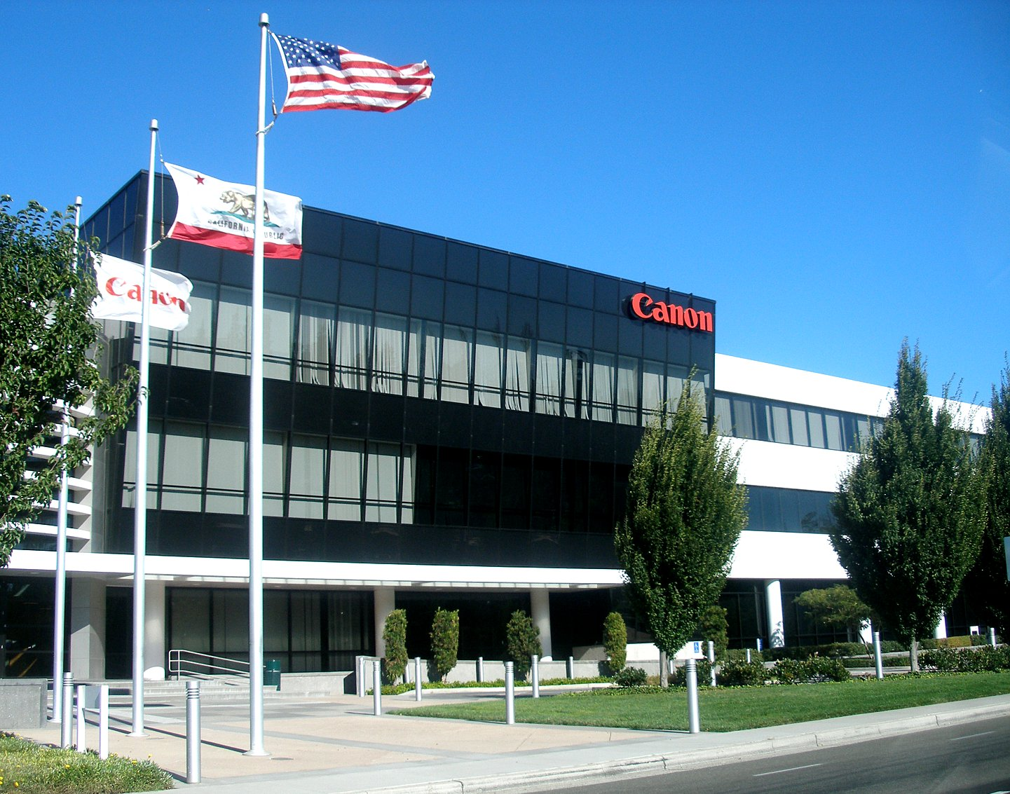 The offices of Canon Inc. in San Jose